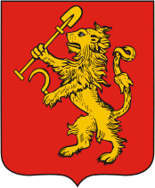 Krasnoyarsk (Krasnoyarsk krai), coat of arms (1851)